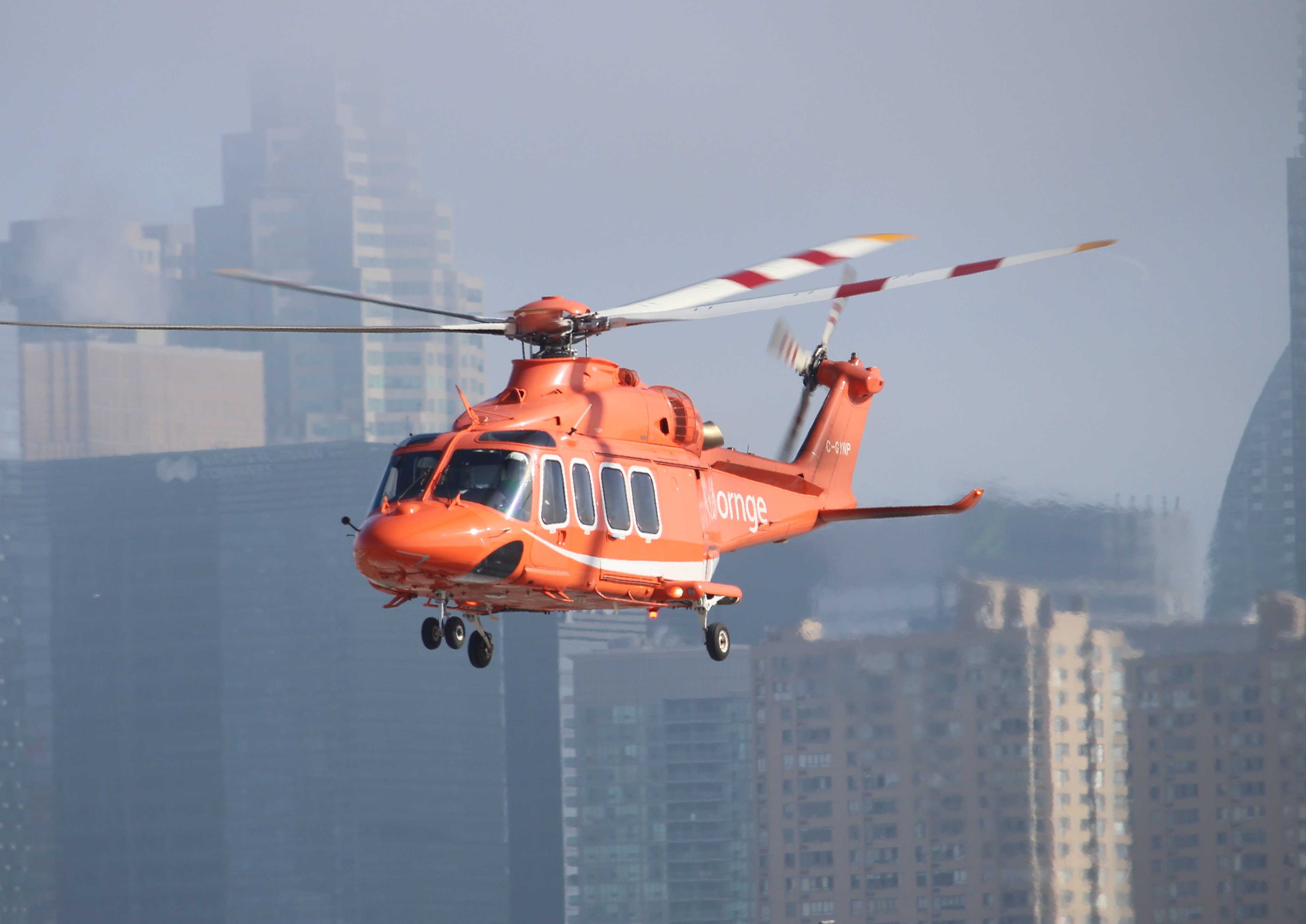 Ornge AgustaWestland AW139, C-GYNP, landing at Billy Bishop Airport with the Toronto skyline in the background